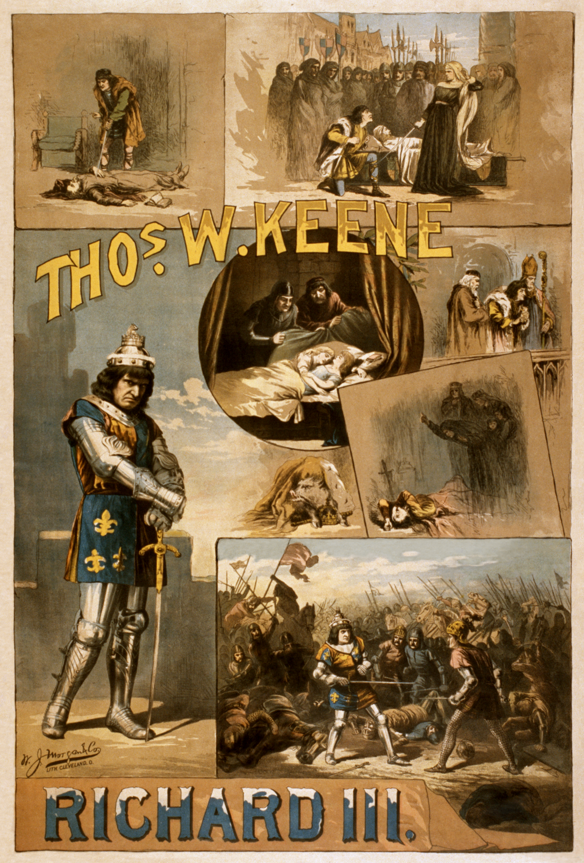 A circa 1884 poster for William Shakespeare's Richard III, starring Thos. W. Keene.